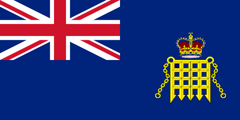 Based on Commons Blue Ensign- Image:Government Ensign of the United Kingdom.svg